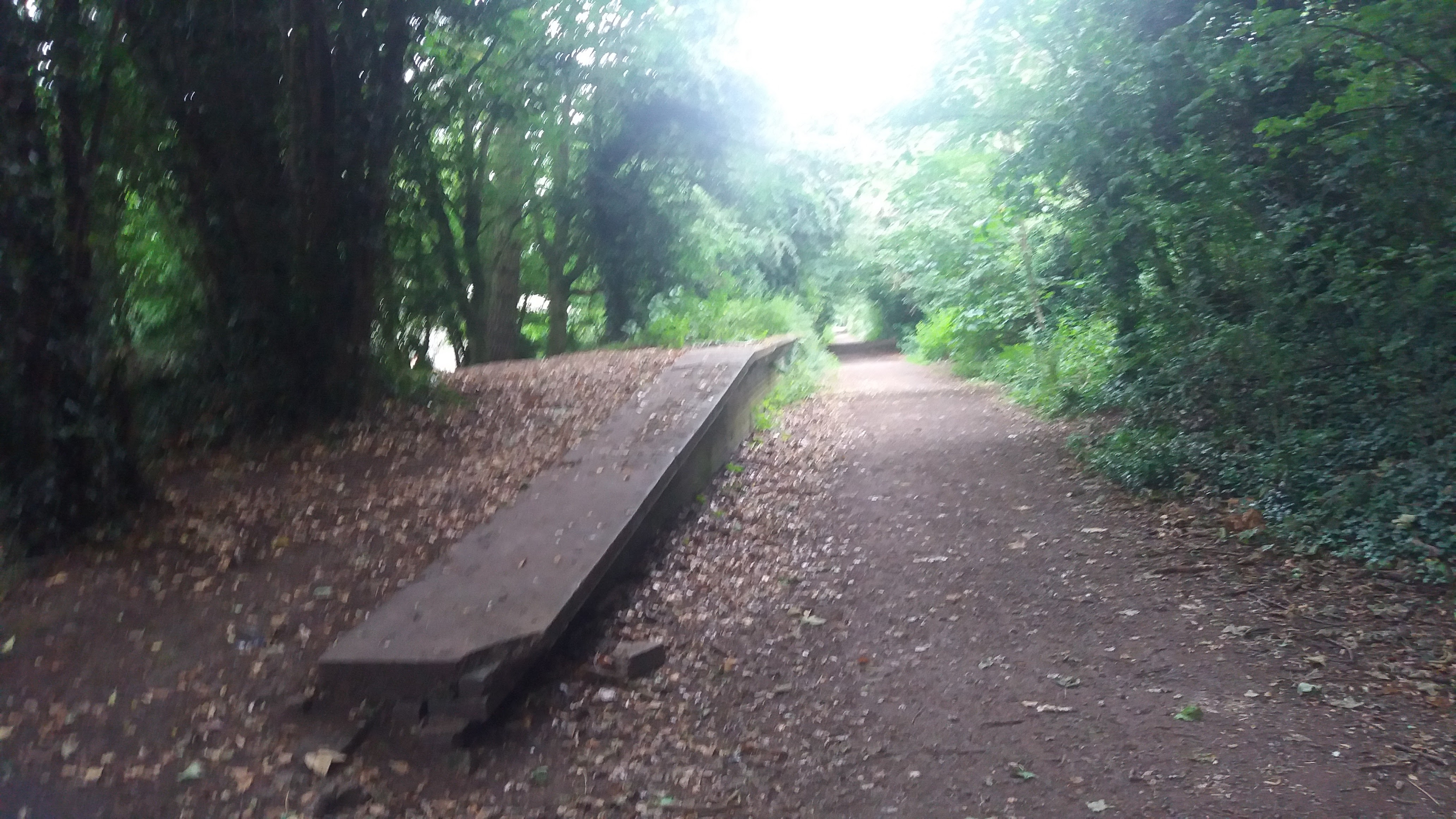 My own.